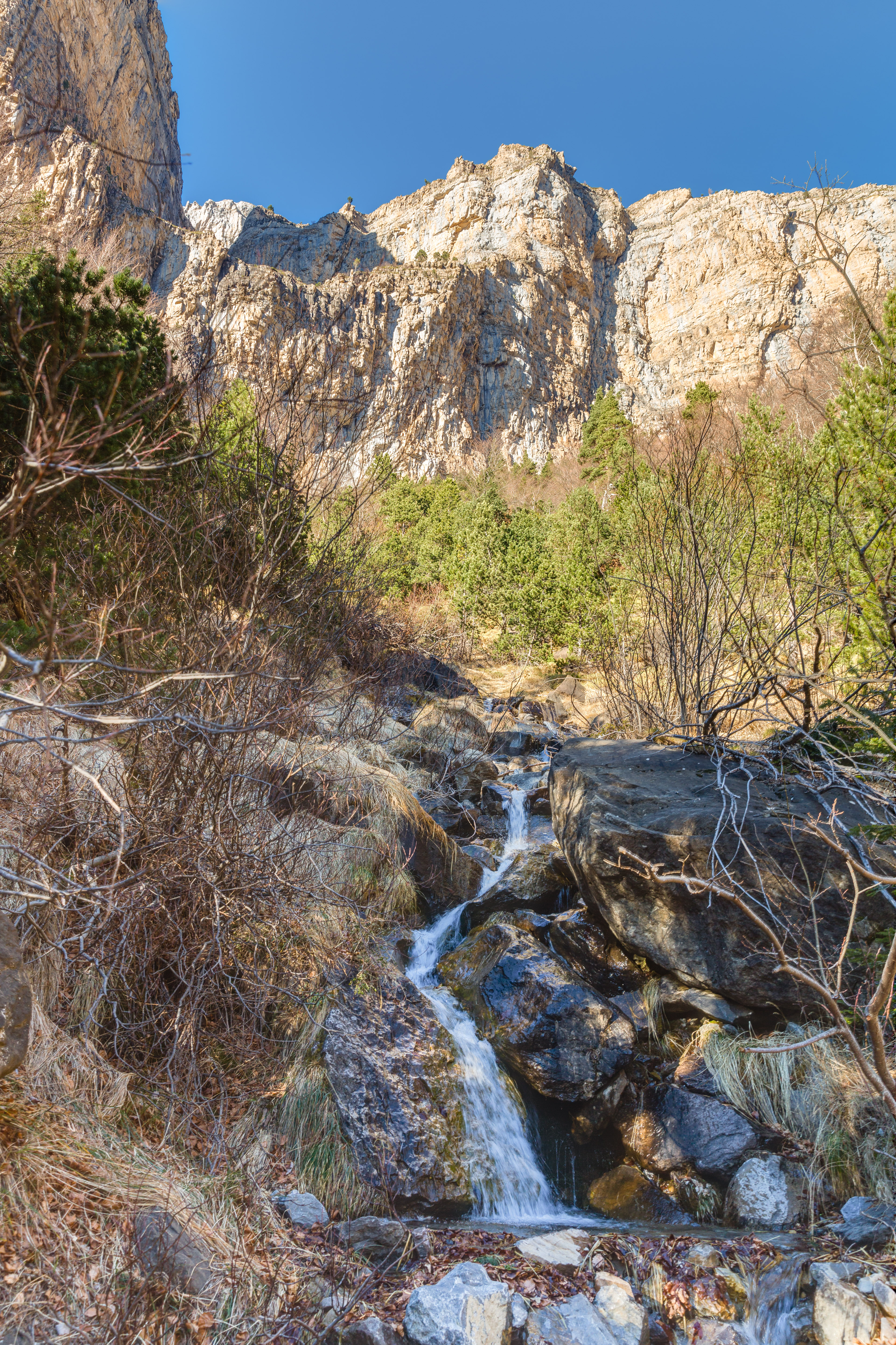 Ordesa y Monte Perdido National Park, Huesca, Spain